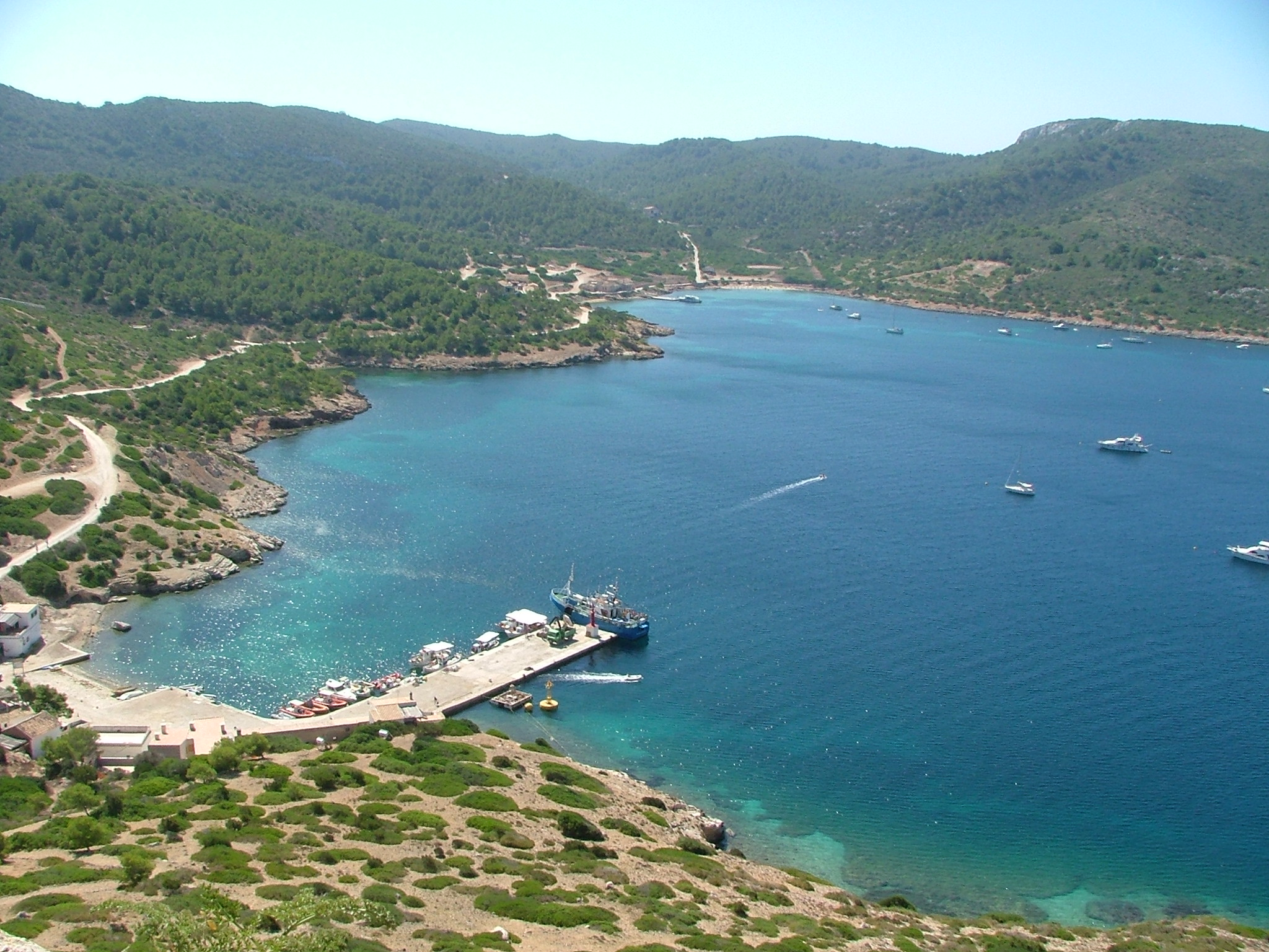 Cabrera bay seen from the castle.